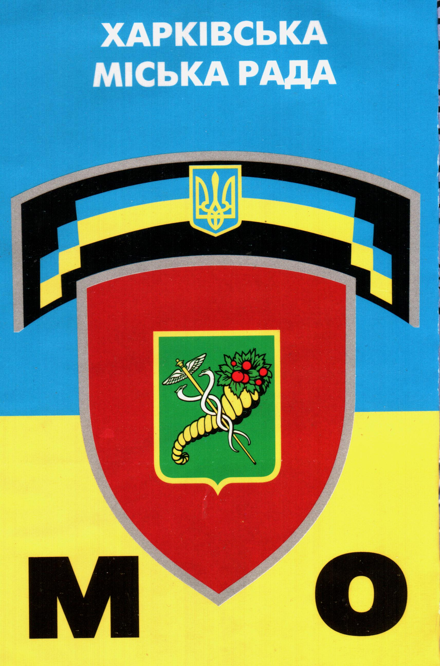 Coat of arms of Kharkiv Oblast.